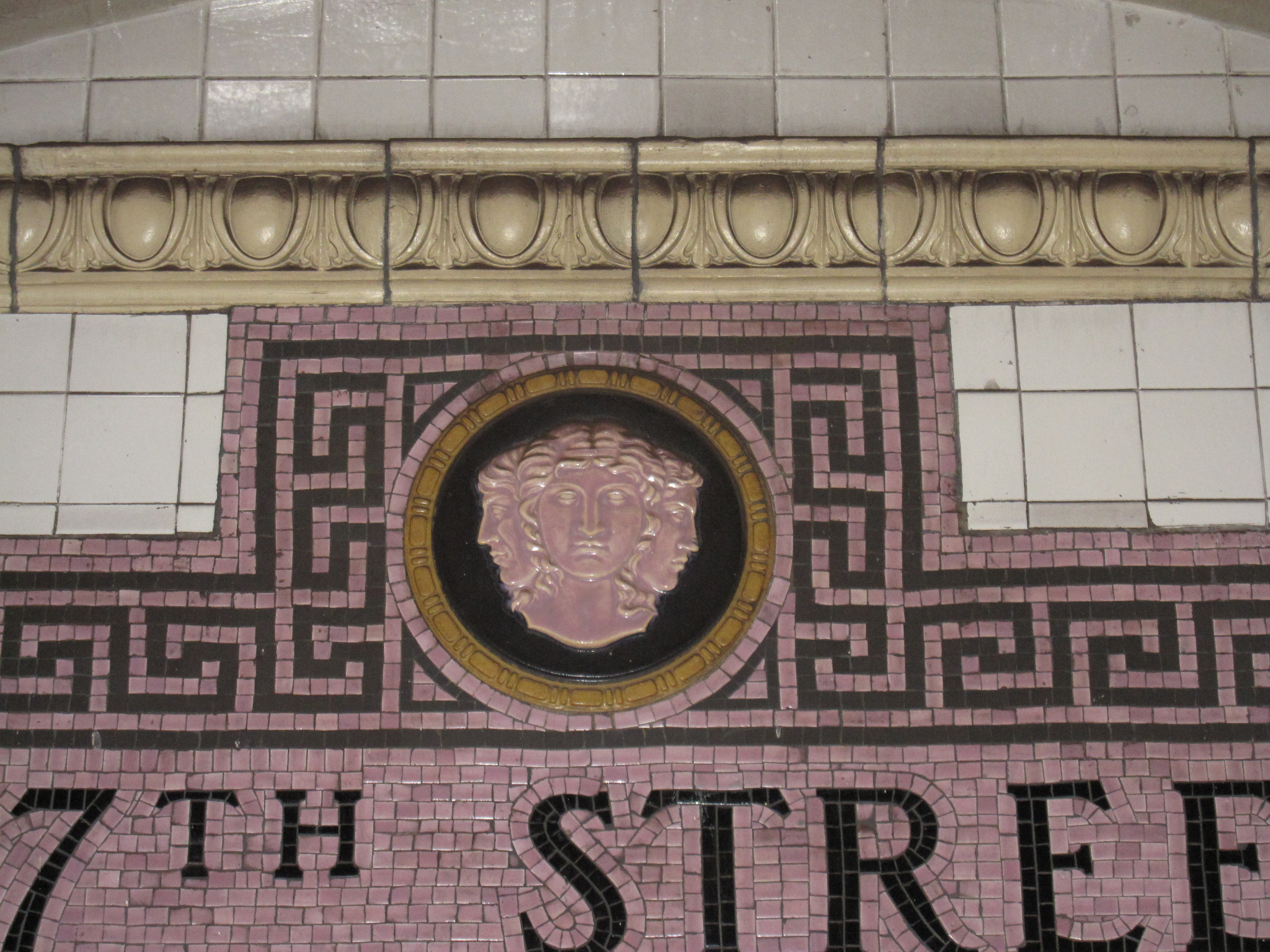 137th Street – City College (IRT Broadway – Seventh Avenue Line)